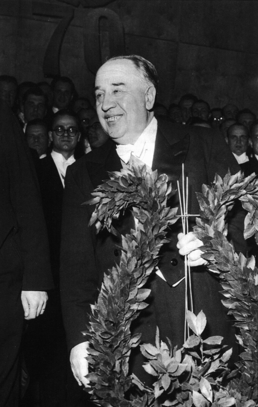 Photograph of the Finnish choral conductor and composer Martti Turunen (1902–1979).